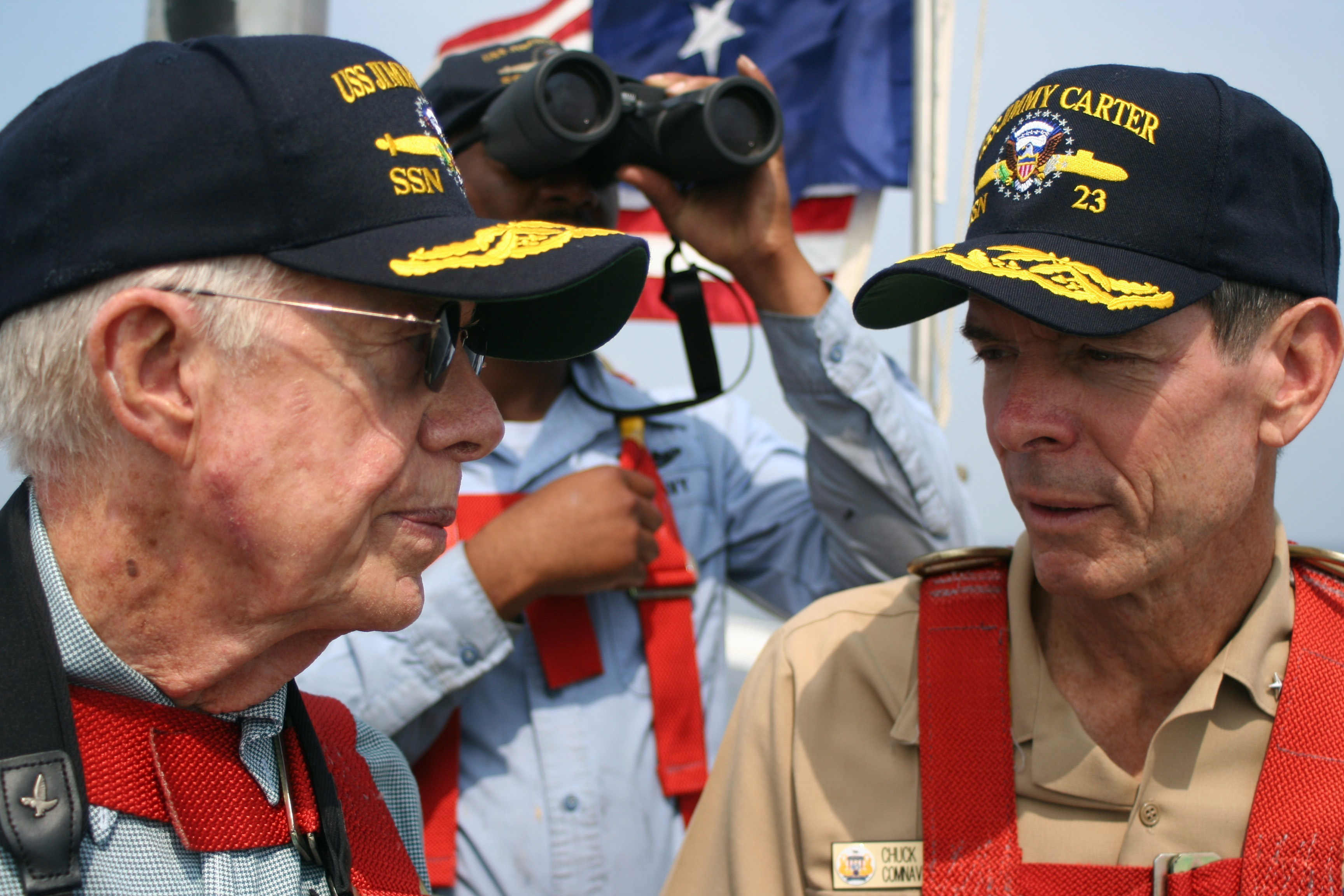 Kings Bay, Ga. (Aug. 11, 2005) - Former President Jimmy Carter speaks with Commander, Submarine Force, U.S. Atlantic Fleet, Vice Adm. Charles Munns, as they ride out to sea on the bridge aboard the Sea Wolf-class attack submarine USS Jimmy Carter (SSN 23). Carter and his wife Rosalynn, spent the night aboard the submarine, touring the ship and meeting with crew members. USS Jimmy Carter is the third Sea Wolf-class attack submarine. U.S. Navy photo by Lt. Mark Jones (RELEASED)